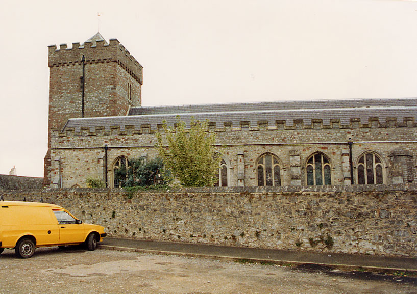 St Martin & St Mary, Chudleigh, Devon